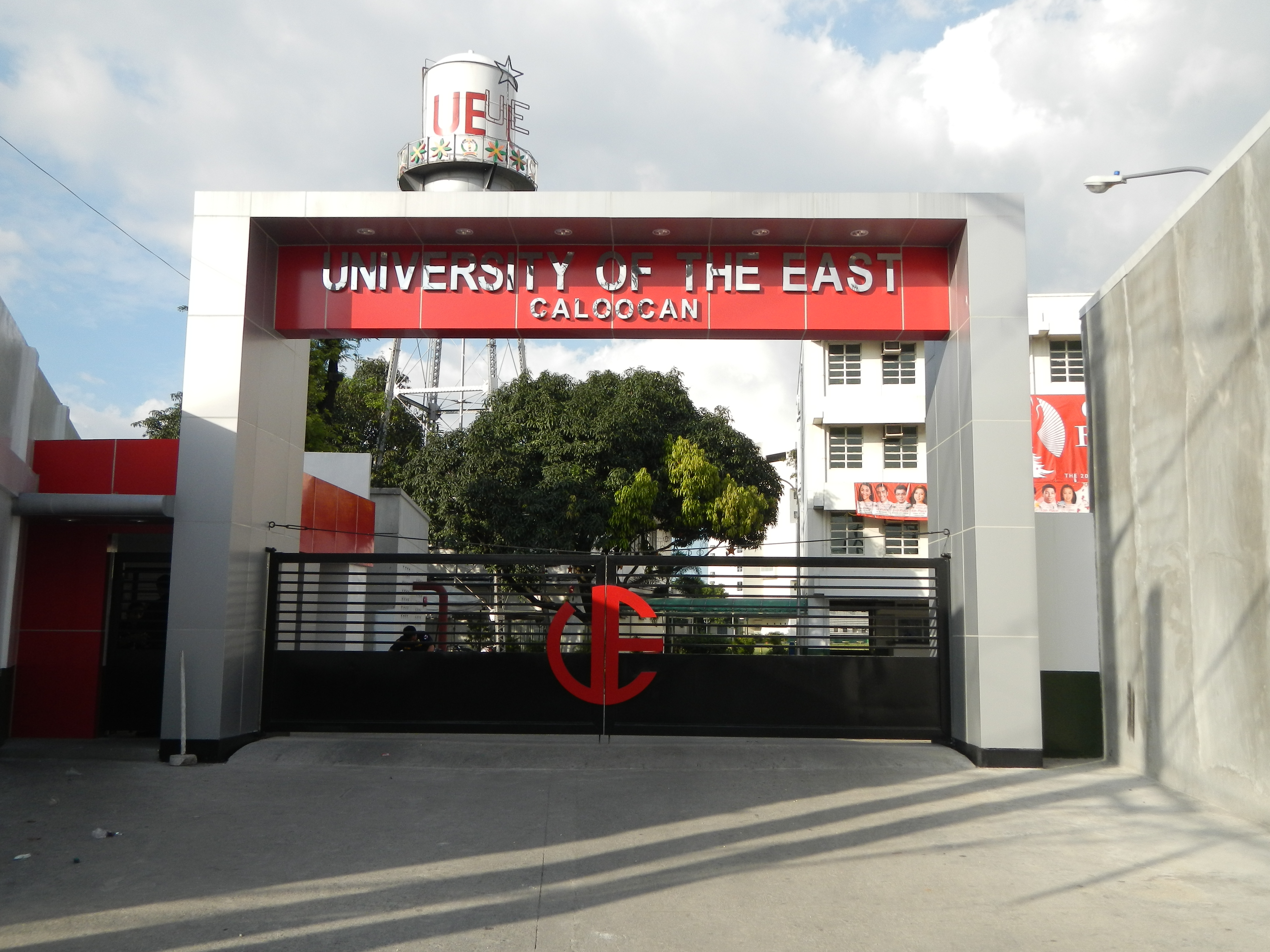 University of the East Caloocan[1] facade 105 Samson Road, Caloocan City [2] and New Building.